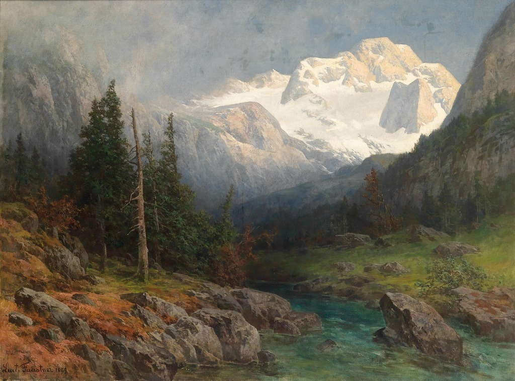 View of the Dachstein